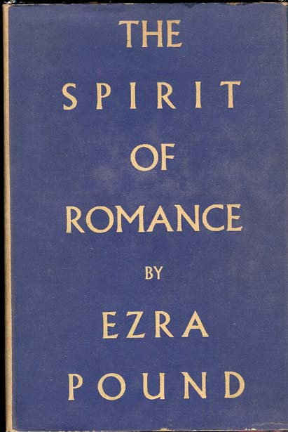 Dust jacket for the revised edition of Ezra Pound's The Spirit of Romance, a book of literary criticism